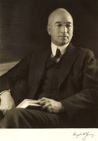 Hugh Hampton Young, MD (18 September 1870–23 August 1945)